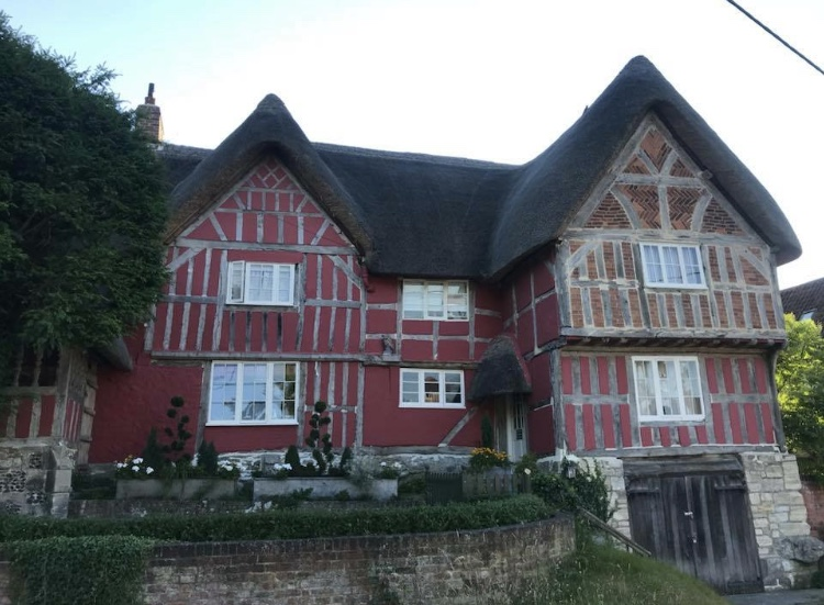 Court House, Bratton, Wiltshire